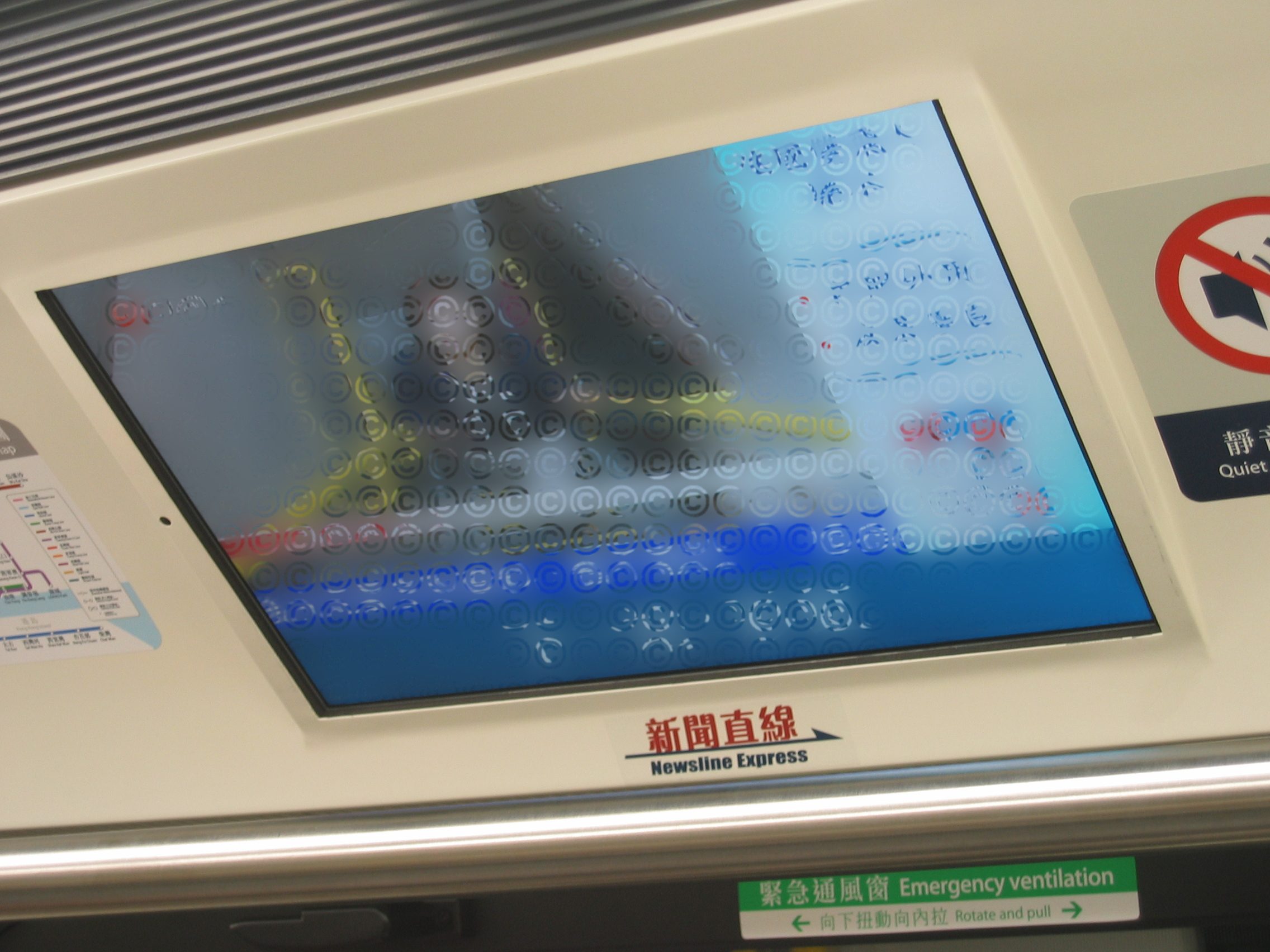 Television for Passenger Information Display System on CRC-Stock EMU for urban lines of MTR, showing Newsline Express and ride announcement.